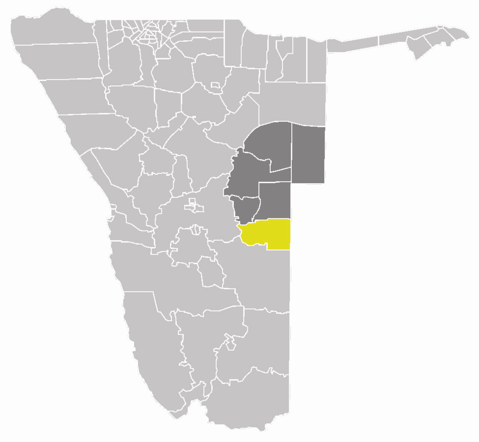 map of the Aminuis constituency within the Omaheke region, Namibia